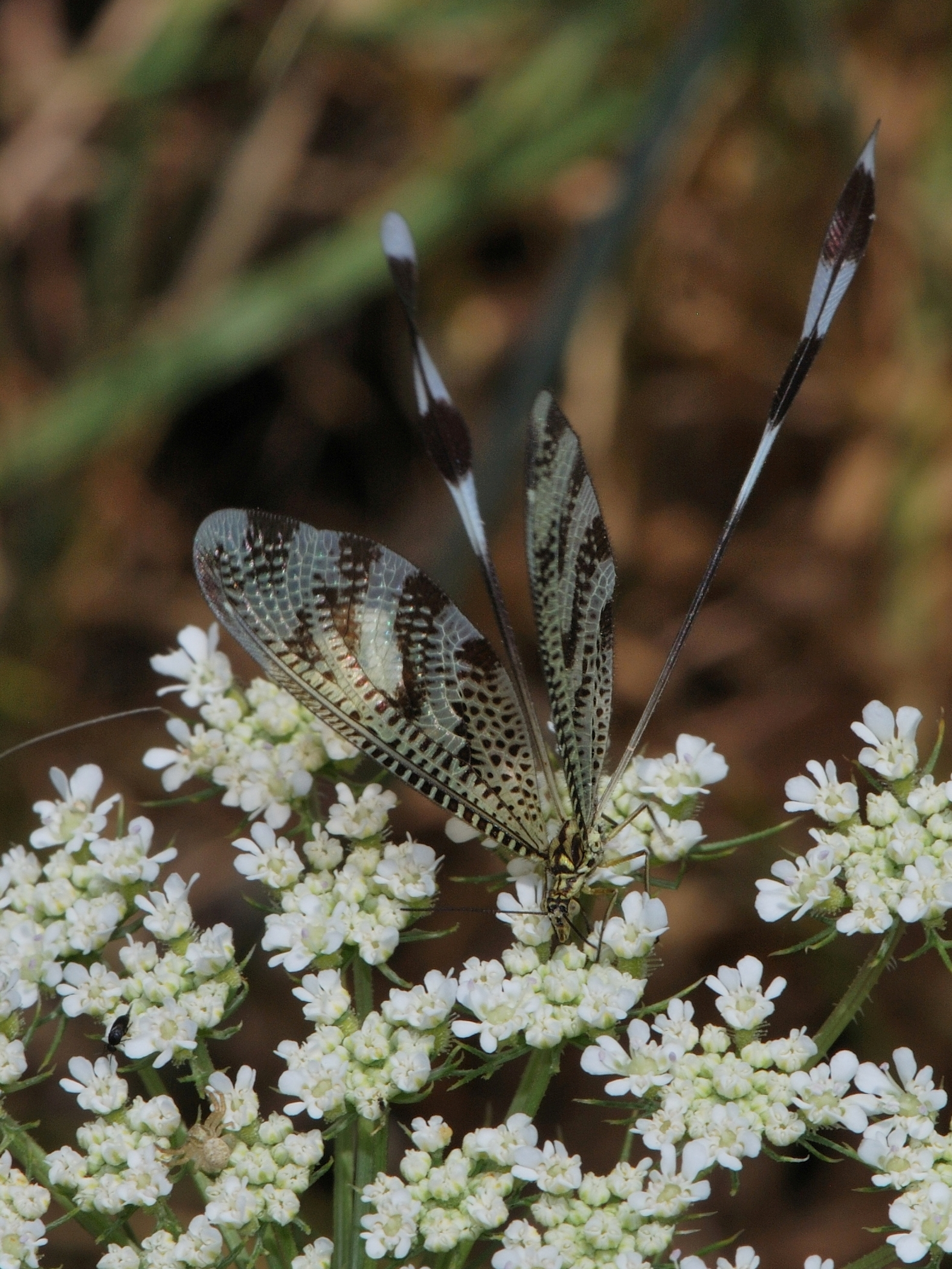 Nemoptera aegyptiaca foraging on Daucus aureus, Judean Foothills, Israel, May 6, 2011.